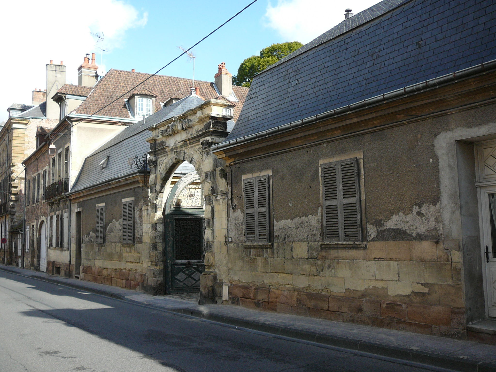 Hôtel de Chavagnac Moulins